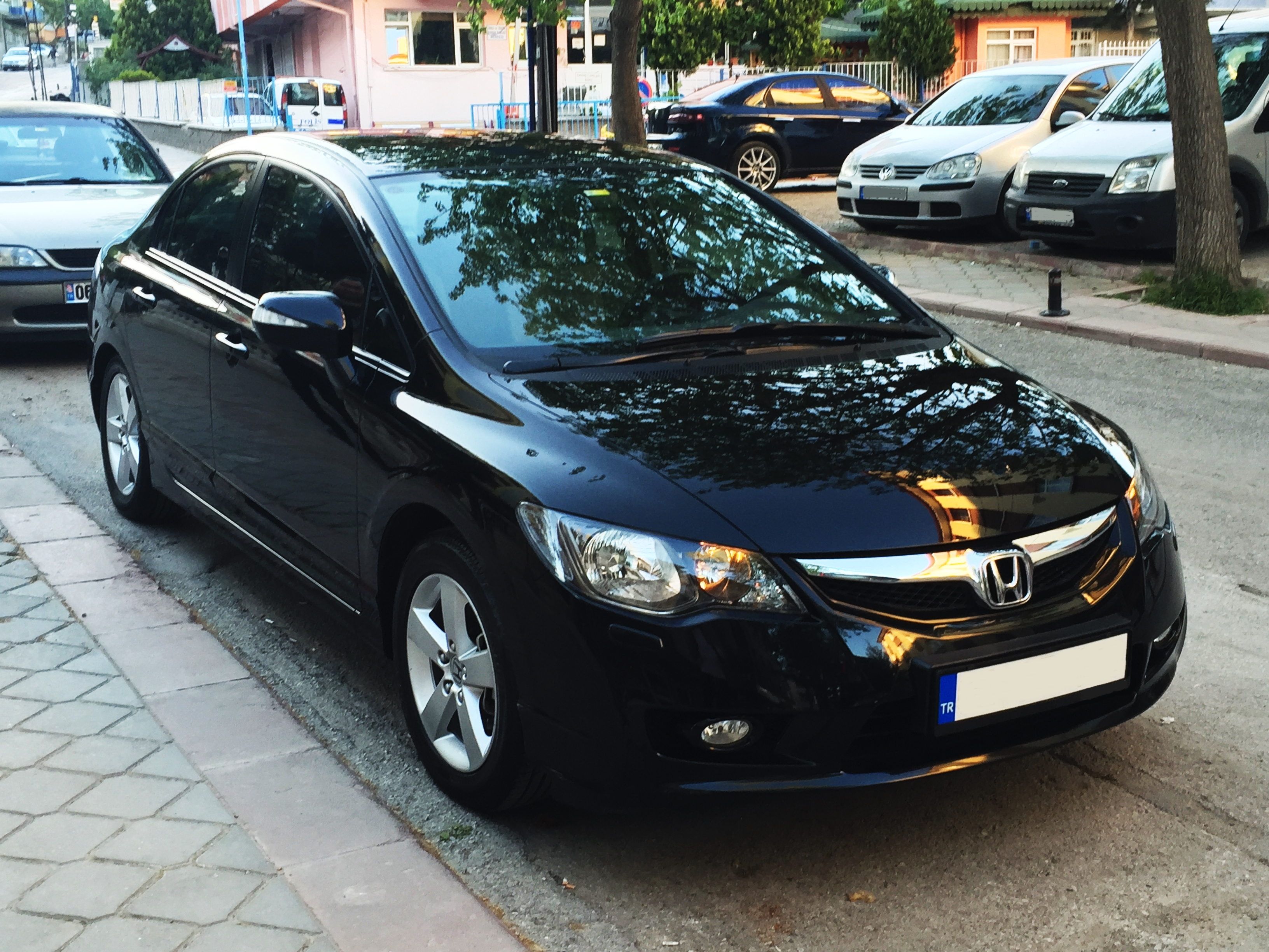 black